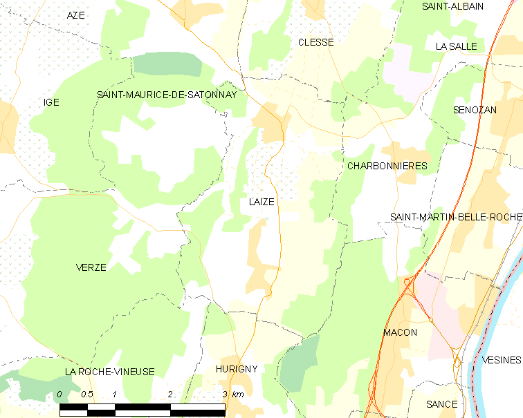 Map of French municipality